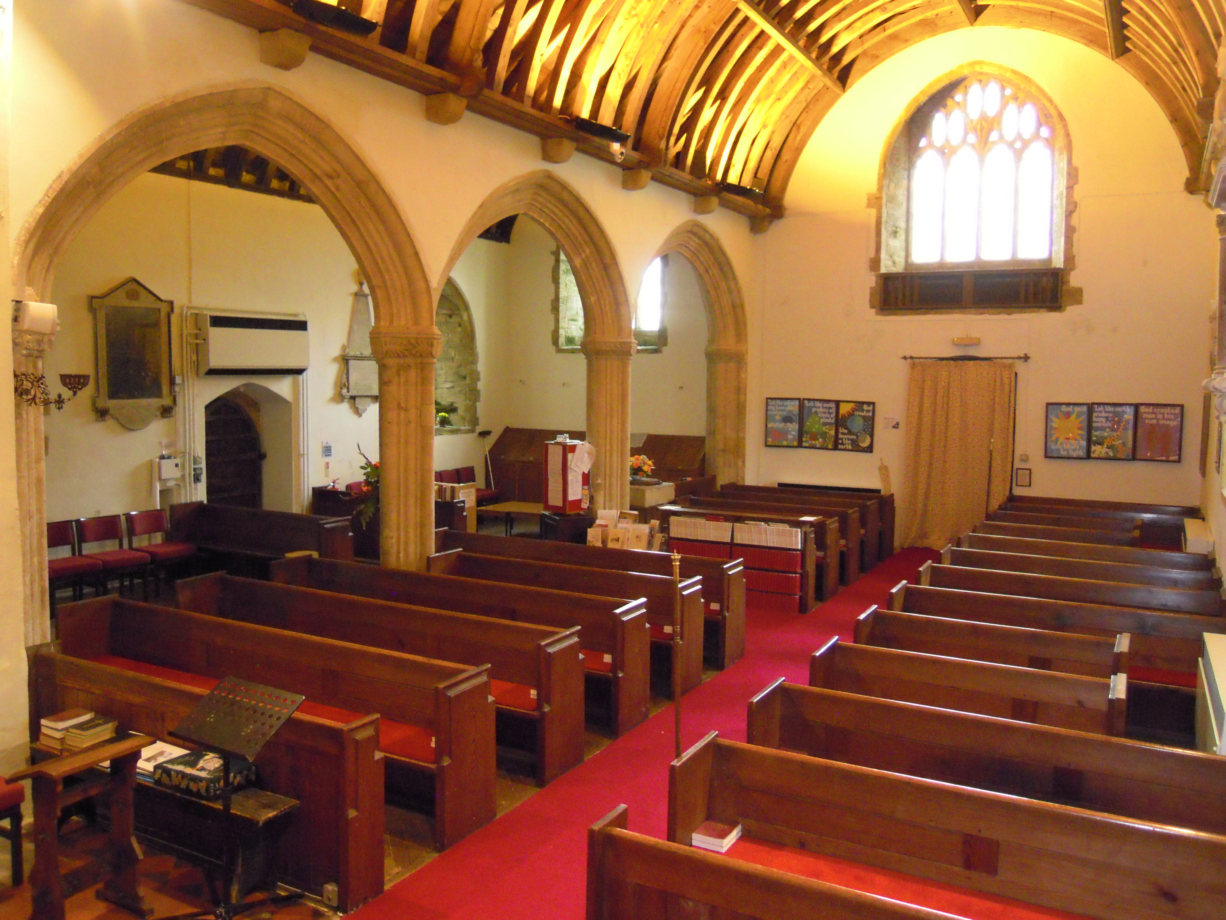 A view down the nave of St Peter's church in Shirwell in Devon